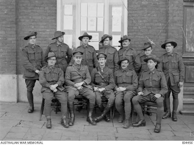 This creased image (taken on 14 March 1919 at Châtelet, Belgium) is a group portrait of the (post-war) Educational Instructors of the First Australian Field Ambulance, who operated as part of delivery of the academic, practical, and vocational training offered within the formal A.I.F Education scheme, that had been instituted by Rt. Rev. George Merrick Long, Anglican Bishop of Bathurst (former headmaster of Trinity Grammar, Melbourne) in May 1918. The scheme, was designed to equip all members of the A.I.F. with the remedial training, experience, skills, abilities, and/or qualifications that would significantly increase their capacity to re-enter the civilian workforce (often in entirely different professions from those in which they were engaged on enlistment). Second from the right in the front row, is Corporal Hugh Gemmell Lamb-Smith (279).